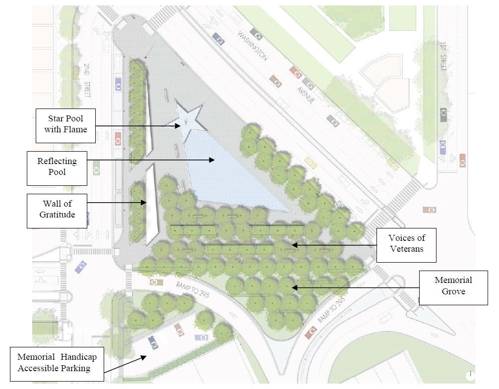 National Capital Planning Commission architectural drawing of the planned American Veterans Disabled for Life Memorial, to be located in Washington, D.C., in the United States.